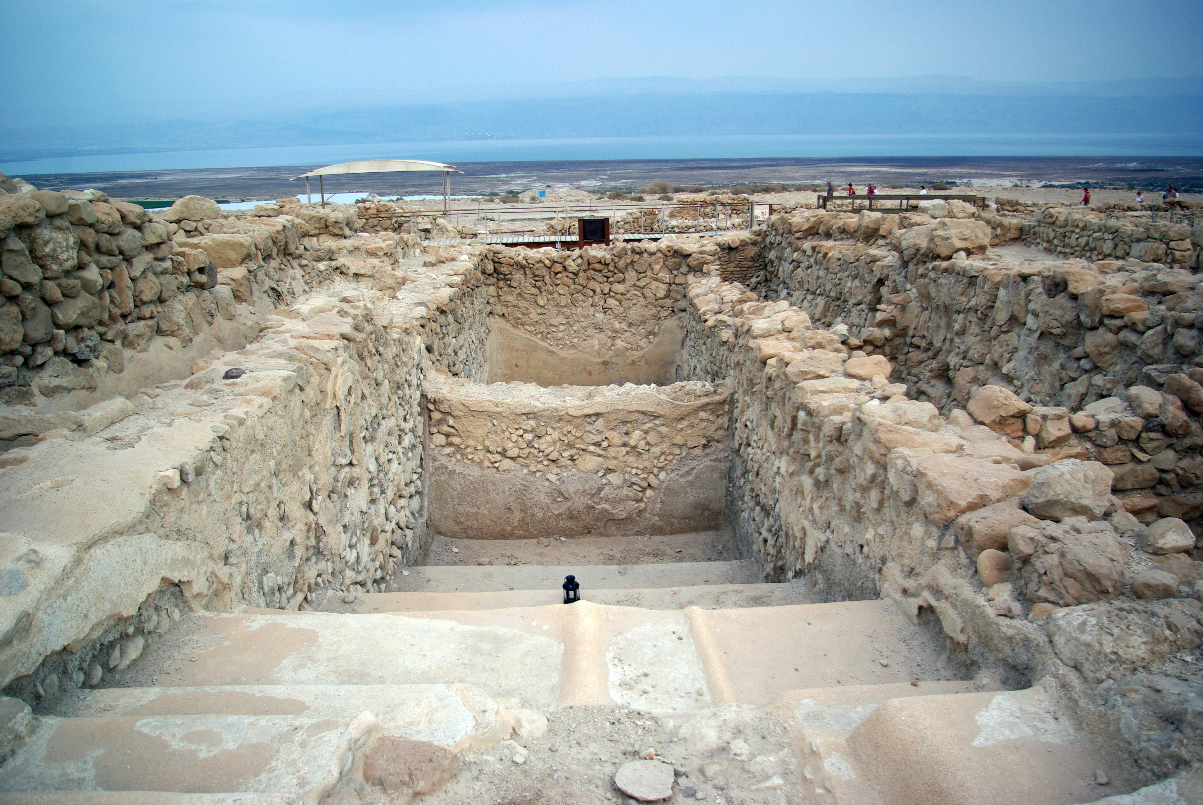 Palestine, Qumran